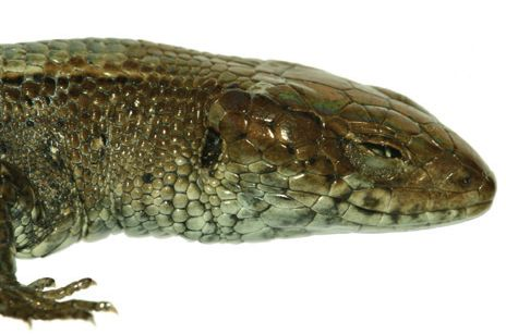 Euspondylus oreades, holotype male (CORBIDI 07219).